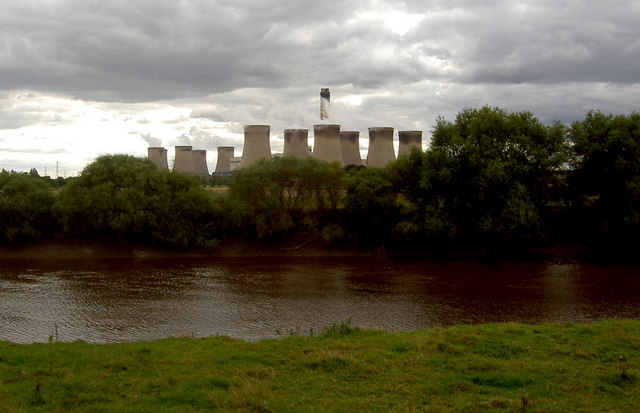 Drax power station from across the Ouse.